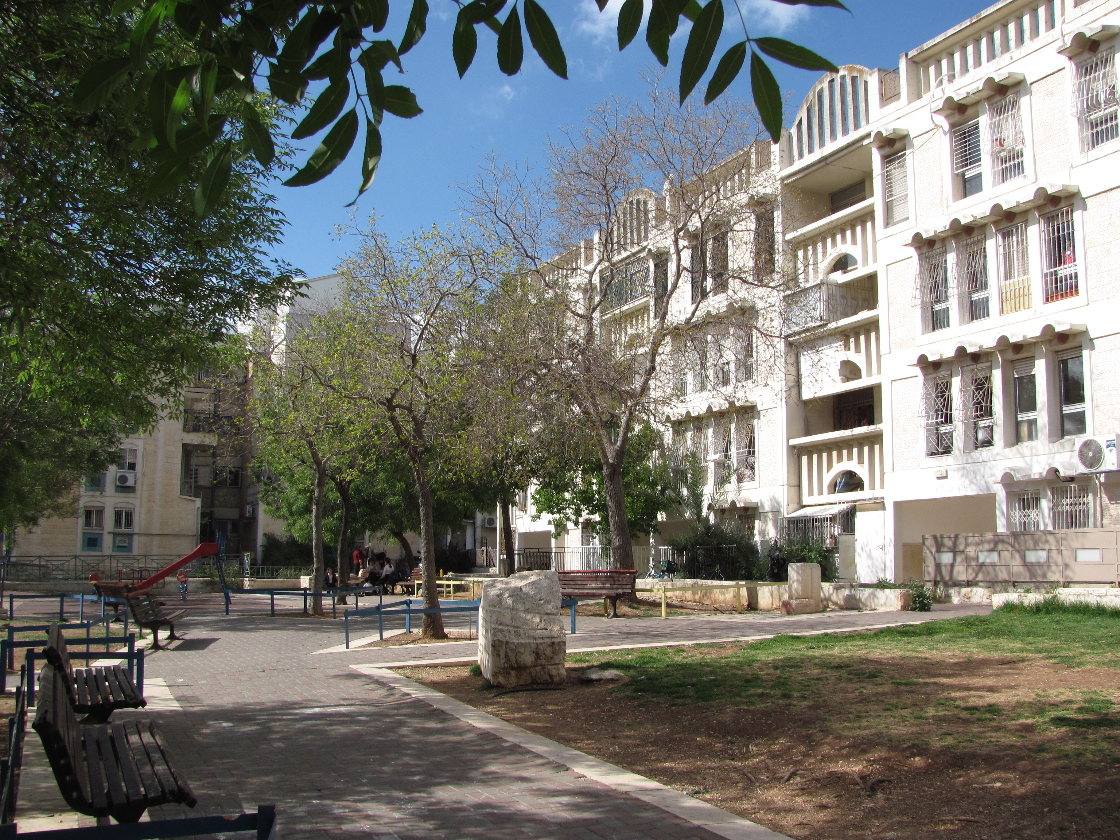 Apartment building and courtyard in the Shmuel HaNavi neighborhood of Jerusalem.